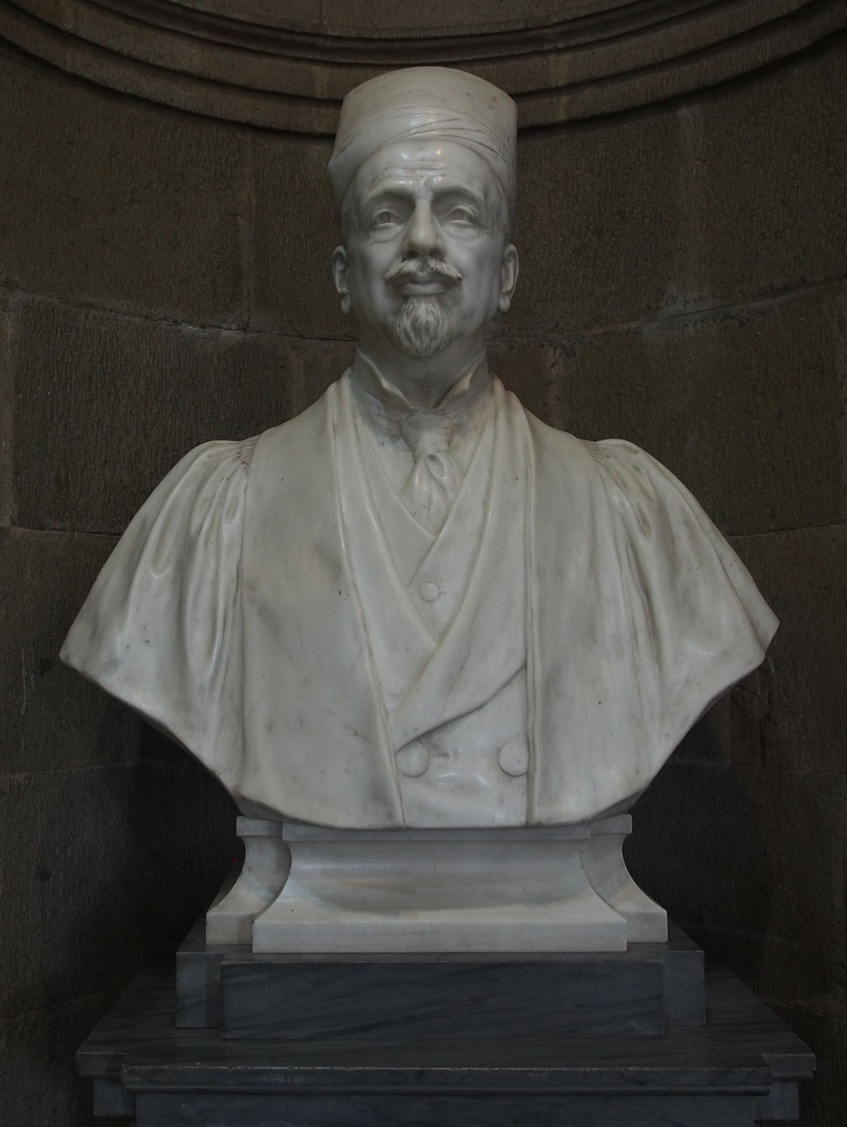 Sir Cowasji Jehangir Bust at Cowasji Jehangir Hall